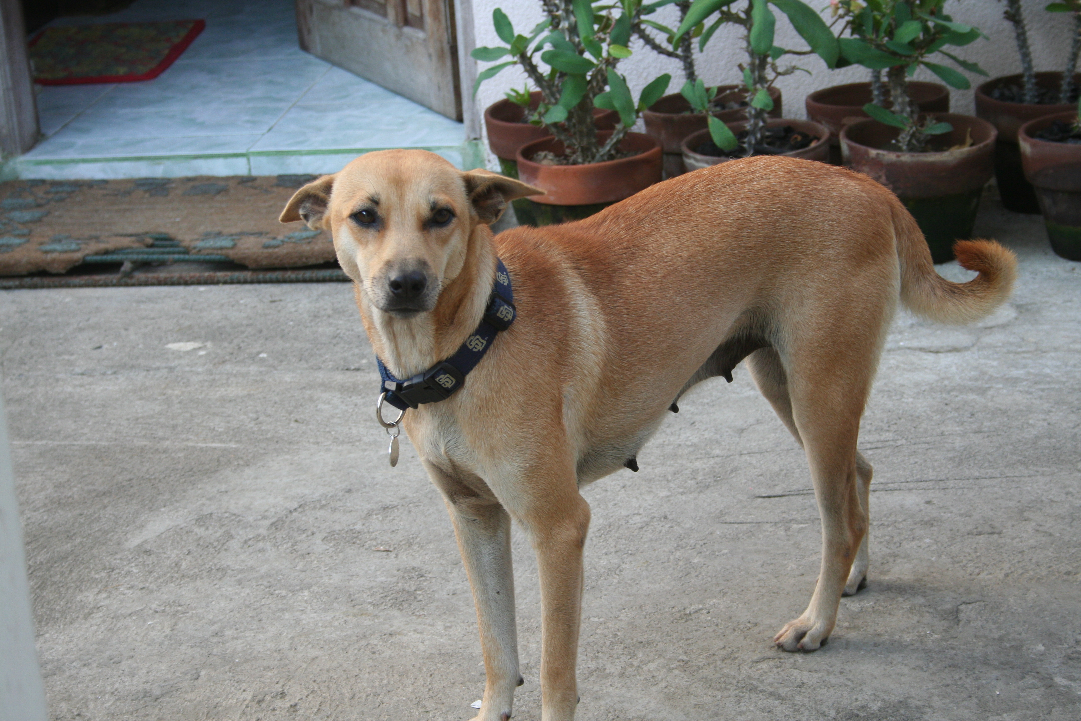 An off-leash pet female askal (asong kalye) (sometimes also referred to as an asong pinoy or Filipino dog) stands in front of the open door of her owner's house in Masinloc, Zambales, Philippines.